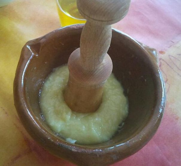 "Allioli" (in